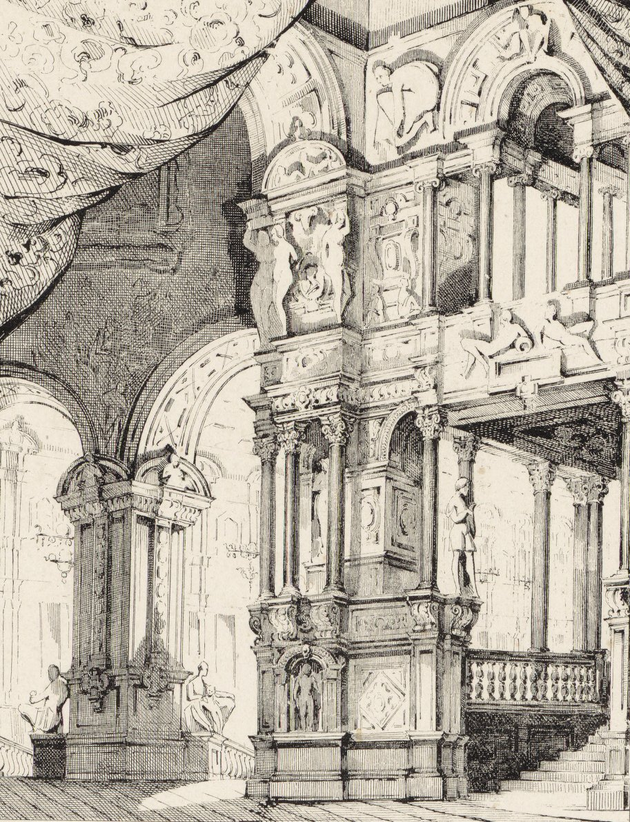 Les Huguenots: sketch of the opera set for the first scene of the fifth act (1836)